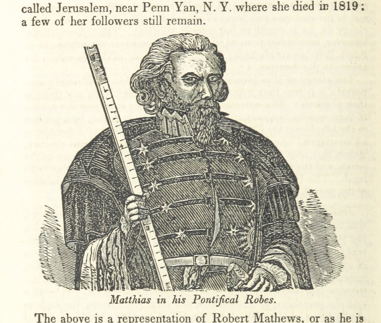 Image taken from: Title: "The History and Antiquities of New England, New York, and New Jersey, etc. [With illustrations.]" Author: BARBER, John Warner. Shelfmark: "British Library HMNTS 1447.f.14." Page: 384 Place of Publishing: Worcester [Mass.] Date of Publishing: 1841 Publisher: Dorr, Howland & Co. Issuance: monographic Identifier: 000194797 Explore: Find this item in the British Library catalogue, 'Explore'. Download the PDF for this book (volume: 0) Image found on book scan 384 (NB not necessarily a page number) Download the OCR-derived text for this volume: (plain text) or (json) Click here to see all the illustrations in this book and click here to browse other illustrations published in books in the same year. Order a higher quality version from here. This file is from the Mechanical Curator collection, a set of over 1 million images scanned from out-of-copyright books and released to Flickr Commons by the British Library. Please add the Flickr page URL for the image Please add the British Library system number for the book This tag does not indicate the copyright status of the attached work. A normal copyright tag is still required. See Commons:Licensing.